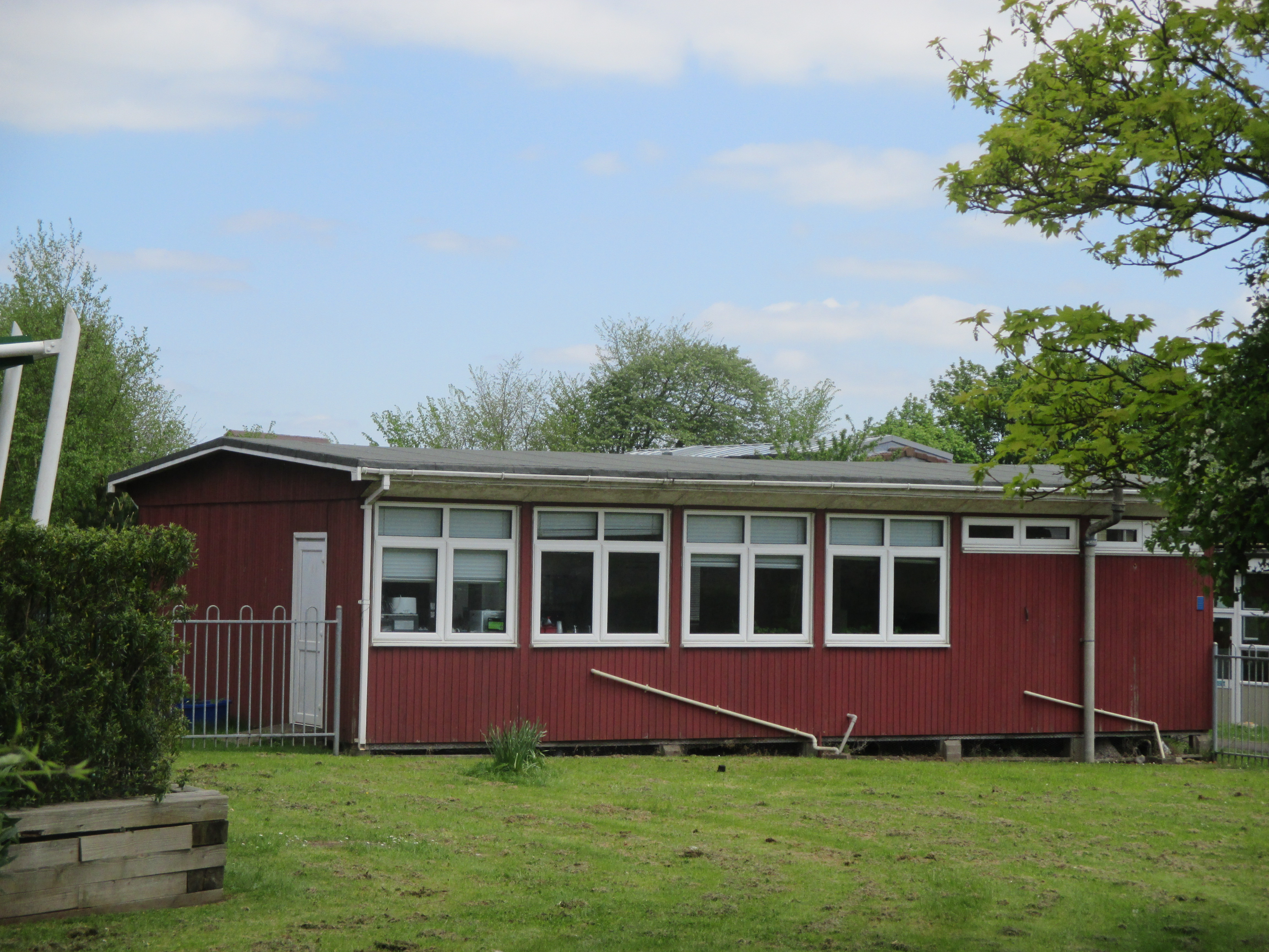 Wooden construction Pratten prefabricated classroom at Westfield Primary School, Somerset.